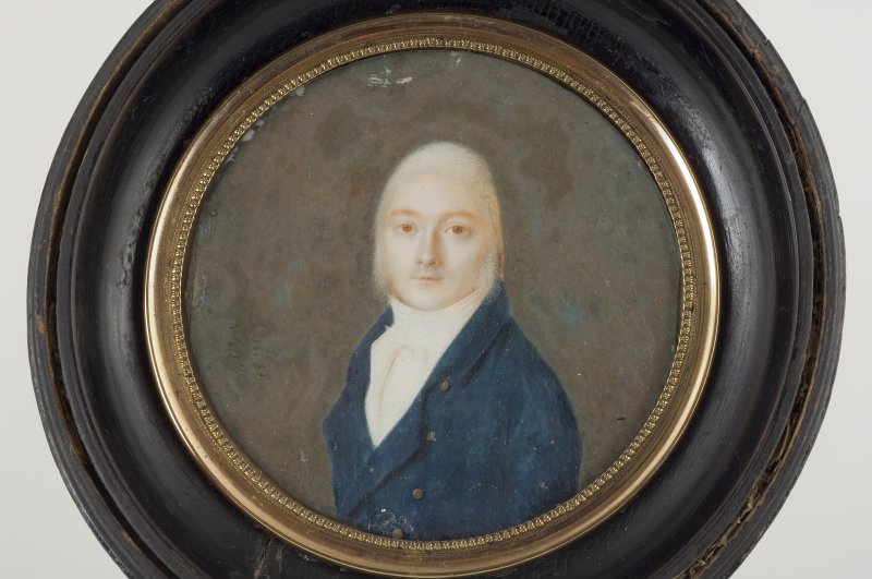 Portrait de John Géraud, 1802 musée des Arts décoratifs et du Design, Bordeaux